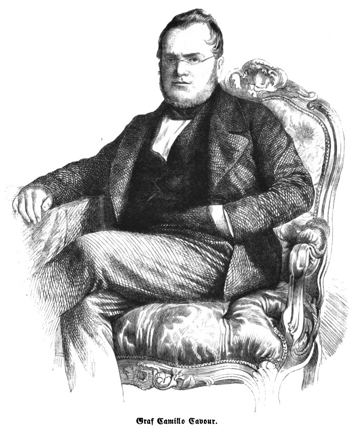 no caption